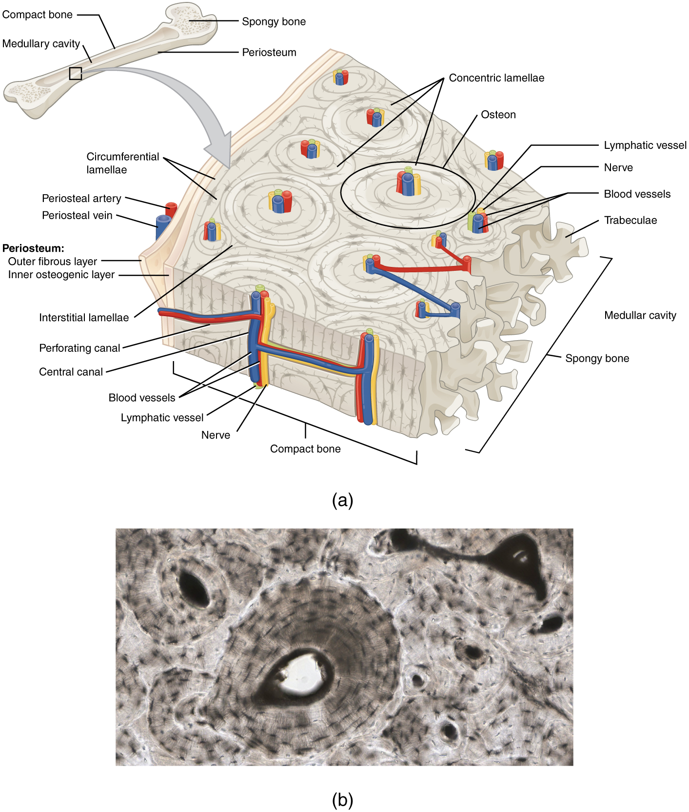 Illustration from Anatomy & Physiology, Connexions Web site. Jun 19, 2013.